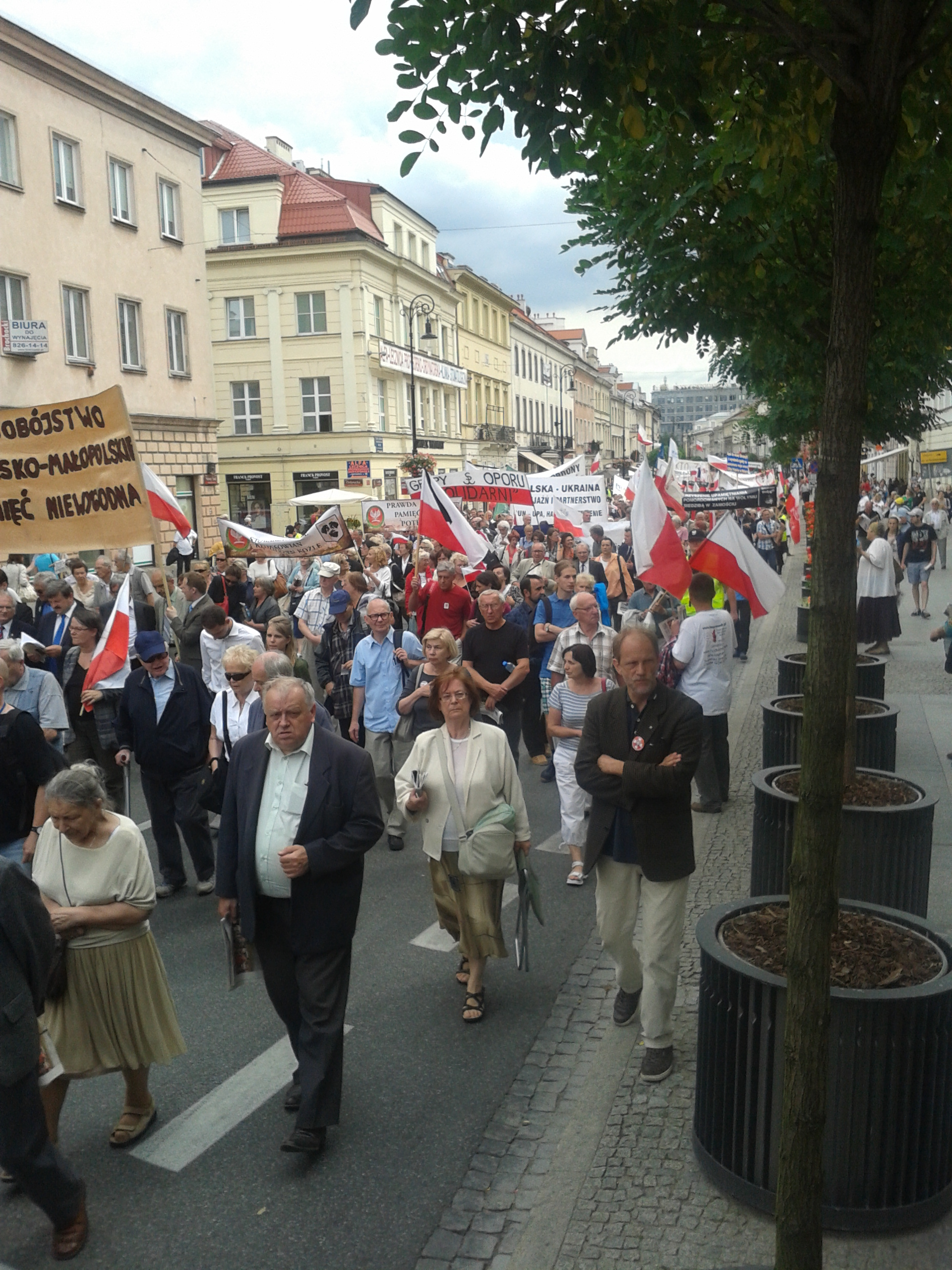 Remembrance March of Volhynian massacres, Warsaw, July 11, 2013